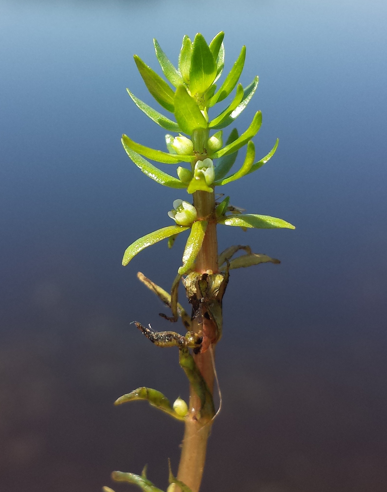 Habitus Taxonym: Elatine alsinastrum ss Fischer et al. EfÖLS 2008 ISBN 978-3-85474-187-9; det. Gergely Király 2015-06-05 Location: dry grassland on acid sand near Darány, Somogy County, Hungary - ca. 130 m a.s.l. Habitat: temporarily flooded dry grassland on acid sand